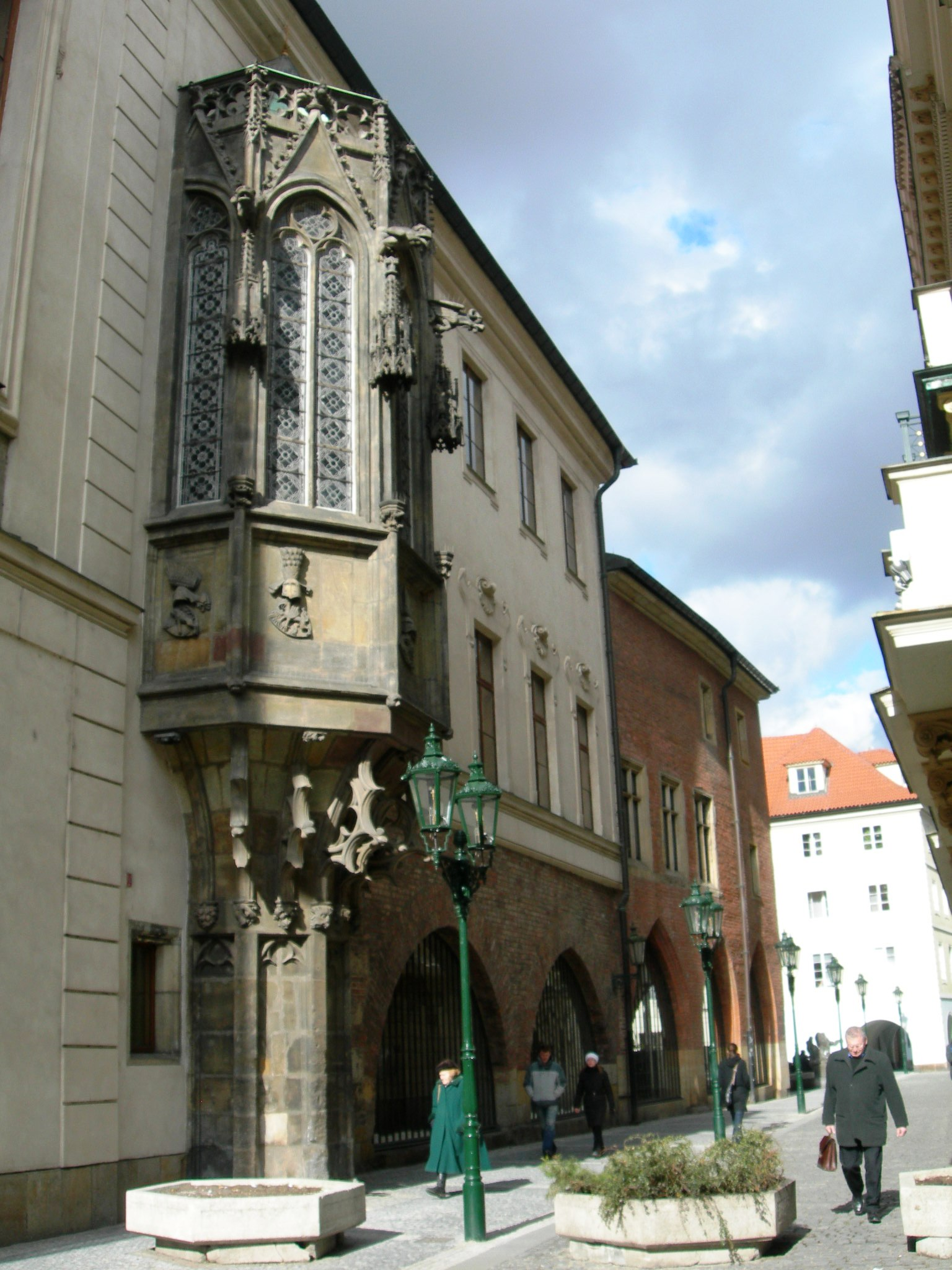 Prague, Karolinum, the historical chapel (around 1400)